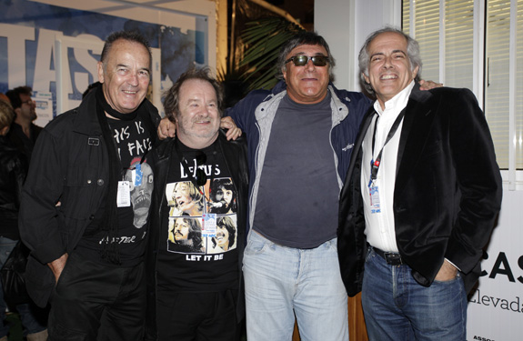 Quarteto 1111 na Homenagem a Tozé Brito